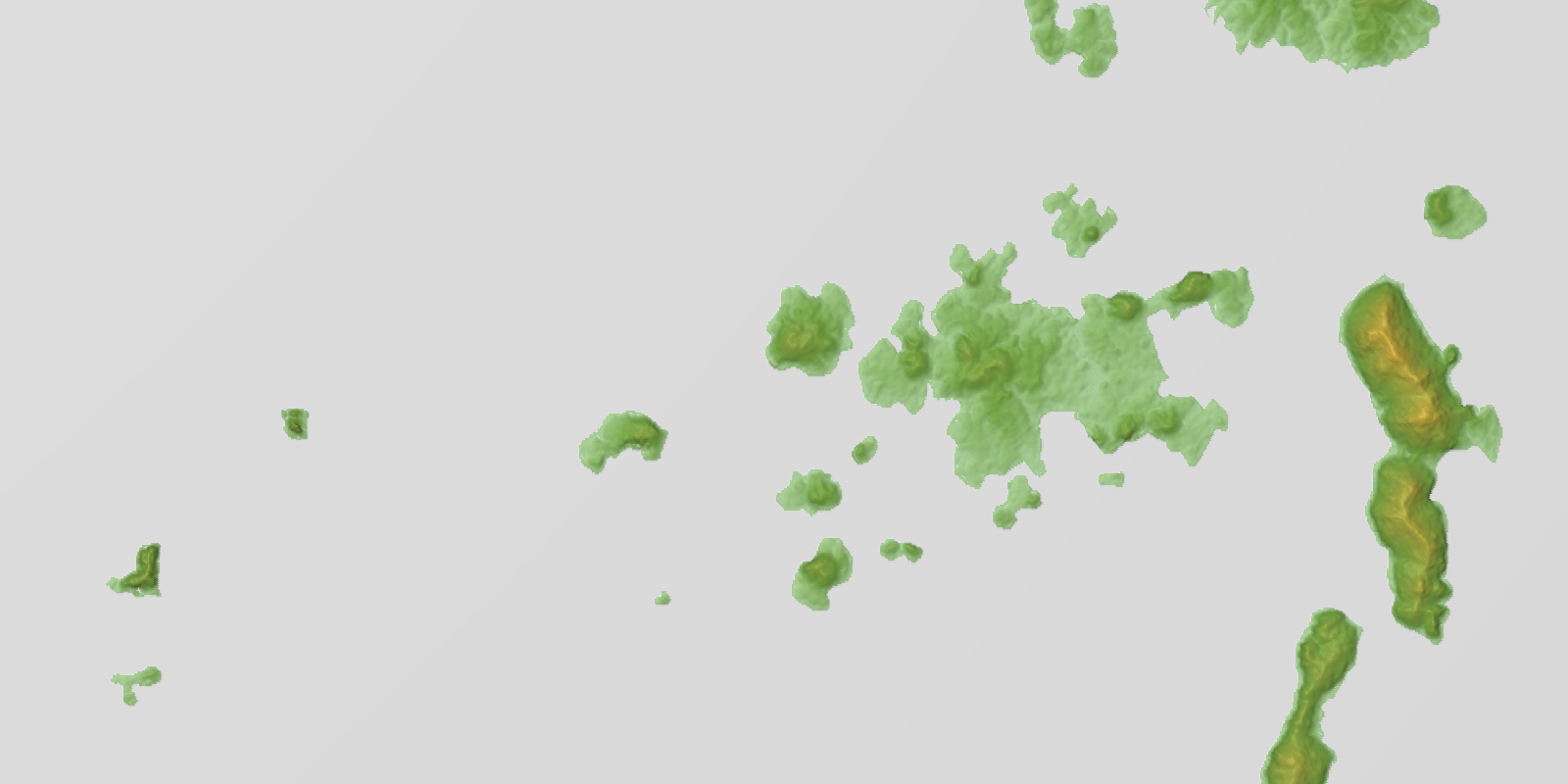 Ojikajima Volcano Group in Gotō Islands, Nagasaki Prefecture, Kyushu, Japan.